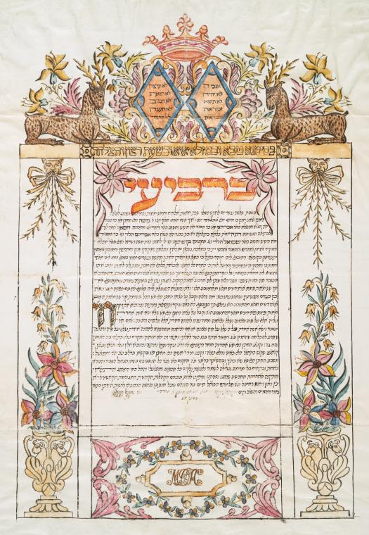 Ketubah. Gibraltar, 1826 Date: 13 Kislev, 5587 [December 13, 1826]. Note 2.) Groom: Mosheh ben Avraham ben David Hasan (Mosheh ben Avraham Hassan). Note 3.) Bride: Donah bat Avraham ha-Levi ben Shemuel ha-Levi Ben Susan (Dona Bensusan).